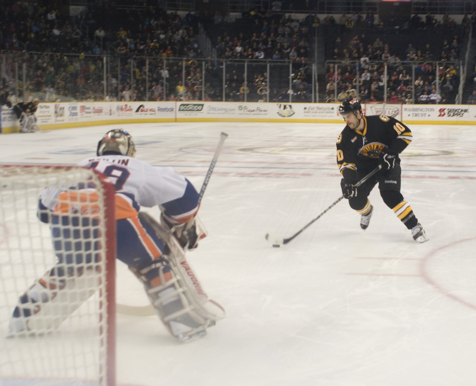 David Laliberté Providence Bruins vs. Bridgeport Sound Tigers. American Hockey League (AHL) Taken by Sarah Connors on March 11, 2011 P-Bruins won in a shootout, 4-3. This photo also appears in Sarah Connors' Flickr Set "Providence vs. Bridgeport 3/12/11" (Set: 96)